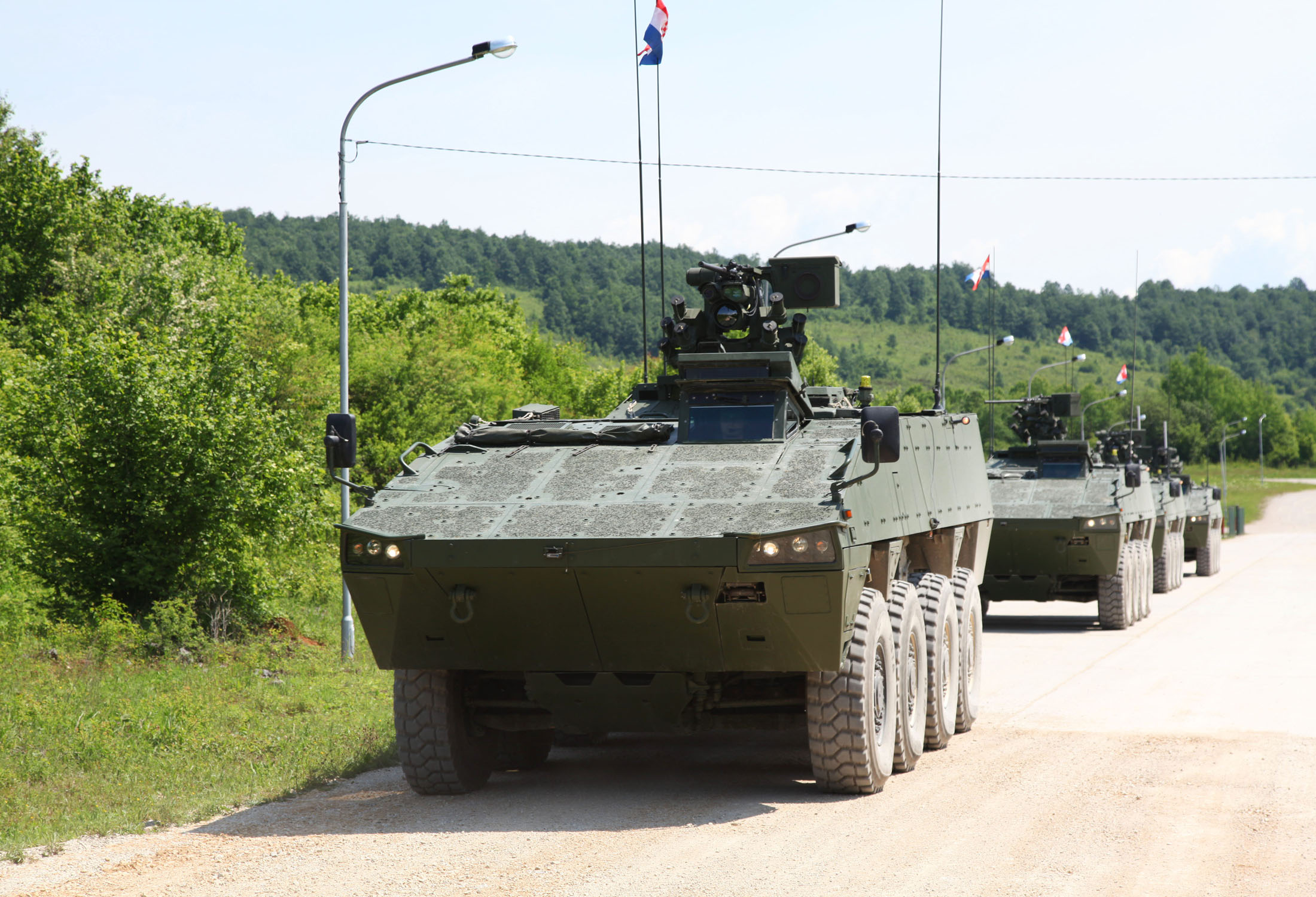 A small fleet of Croatian Patria vehicles transport soldiers of the Croatian Land Forces to a training site as they prepare to conduct a movement to contact exercise during the Immediate Response 2012 (IR12) training event held in Slunj, Croatia on Tuesday, May 29, 2012. IR12 is a multinational tactical field training exercise that will involve more than 700 personnel primarily from the U.S. Army Europe’s 2nd Calvary Regiment and Croatian armed forces, with contingents from Albania, Bosnia-Herzegovina, Montenegro and Slovenia. Macedonia and Serbia will send observers to the exercise. The exercise is a part of USEUCOM's joint training and exercise program designed to enhance joint and combined interoperability between the U.S. Army, U.S. Air Force, Croatian Armed Forces and partner nations, and will help prepare participants to operate successfully in a joint, multinational, interagency, integrated environment. (U.S. Army photo by SPC Lorenzo Ware/Released)